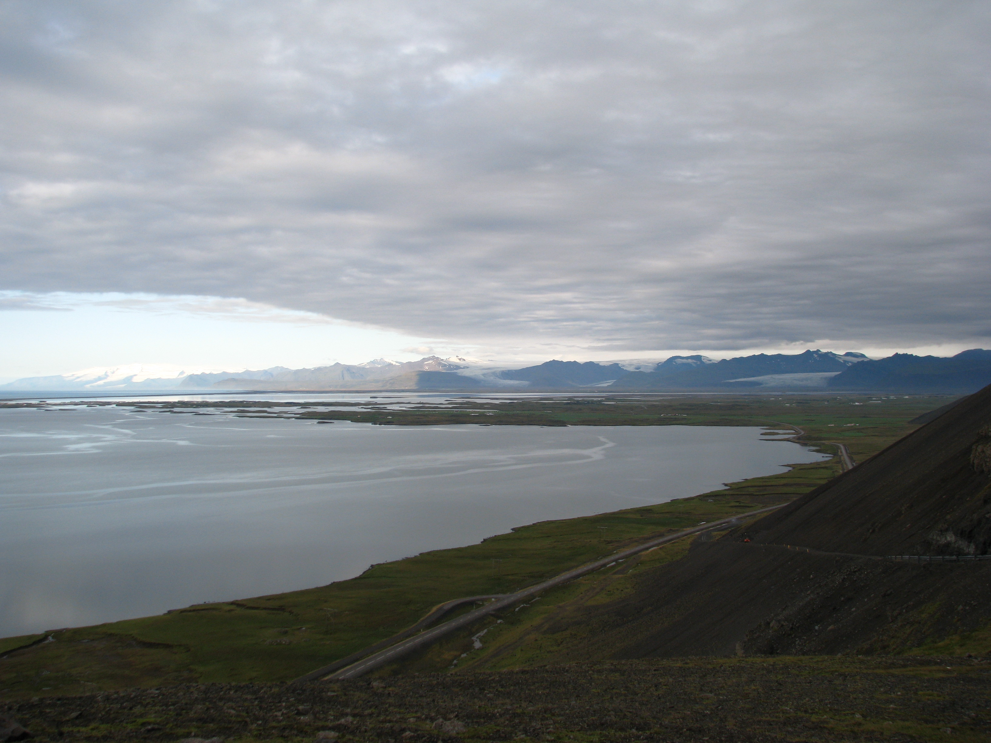 Almannaskard, Iceland, mountainpas